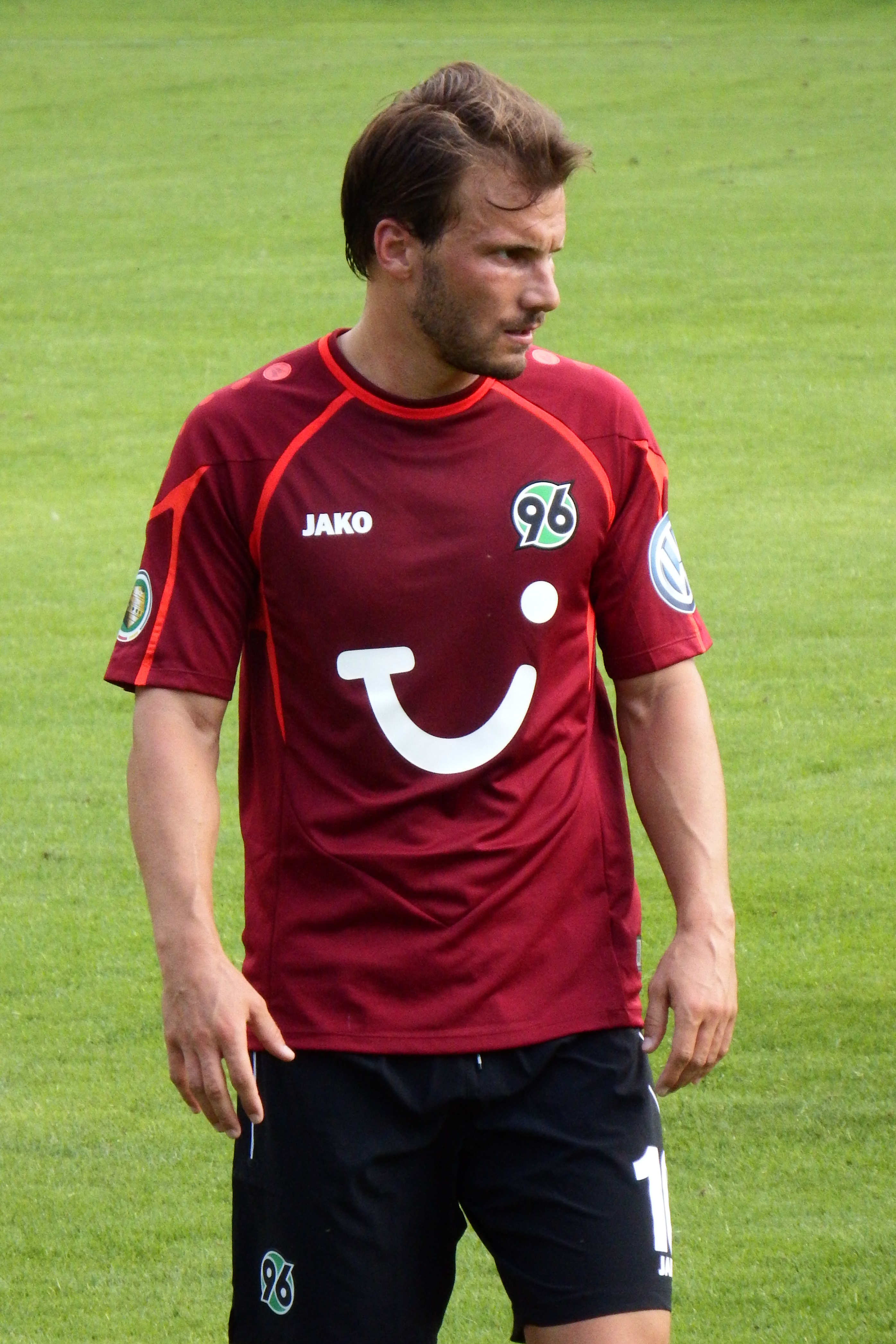 Szabolcs Huszti as Player of Hannover 96